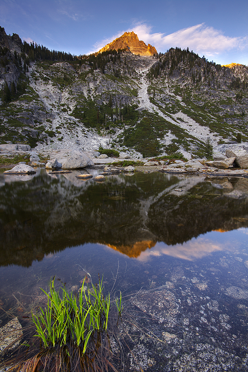 Canyon Creek Lakes in the Trinity Alps, California. Sawtooth Mountain in the background.